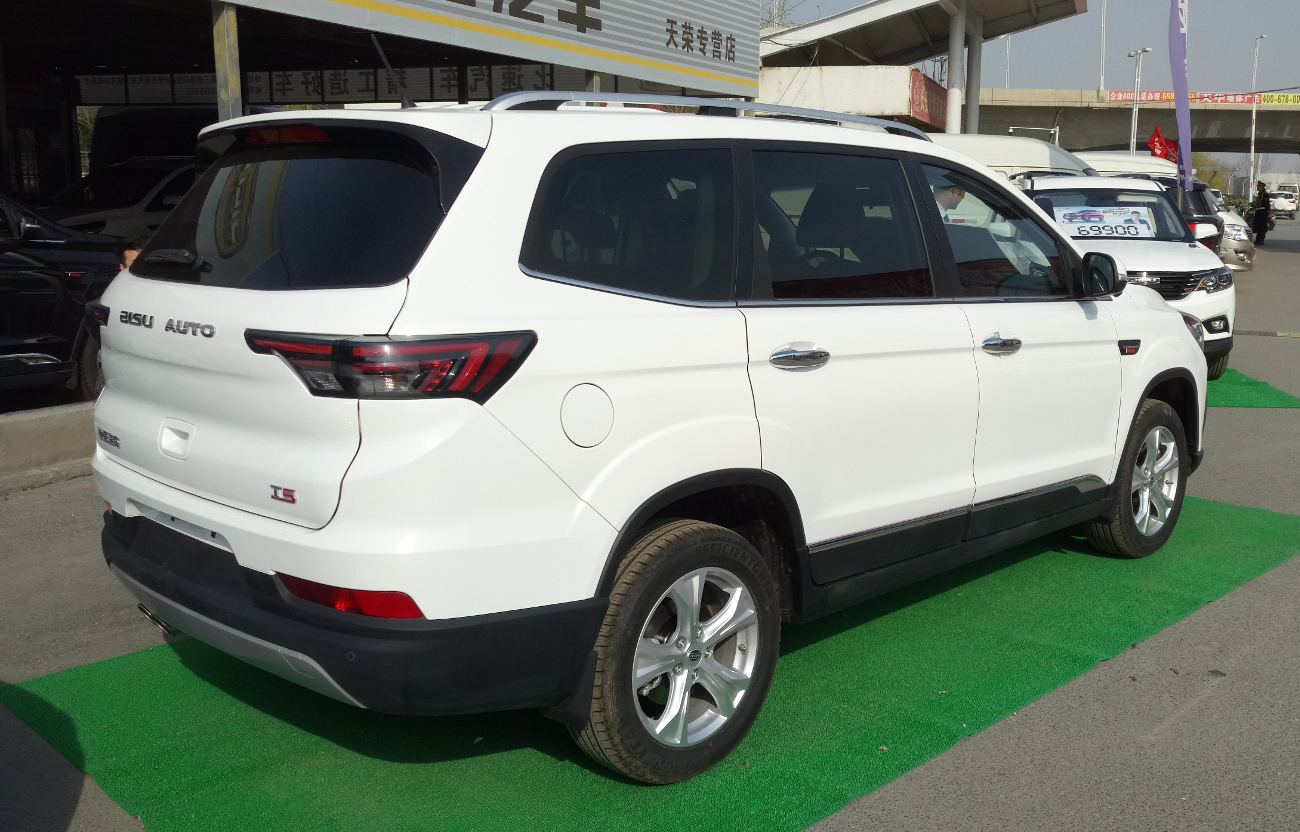 Bisu T5 photographed in Zhengzhou, Henan province, China.